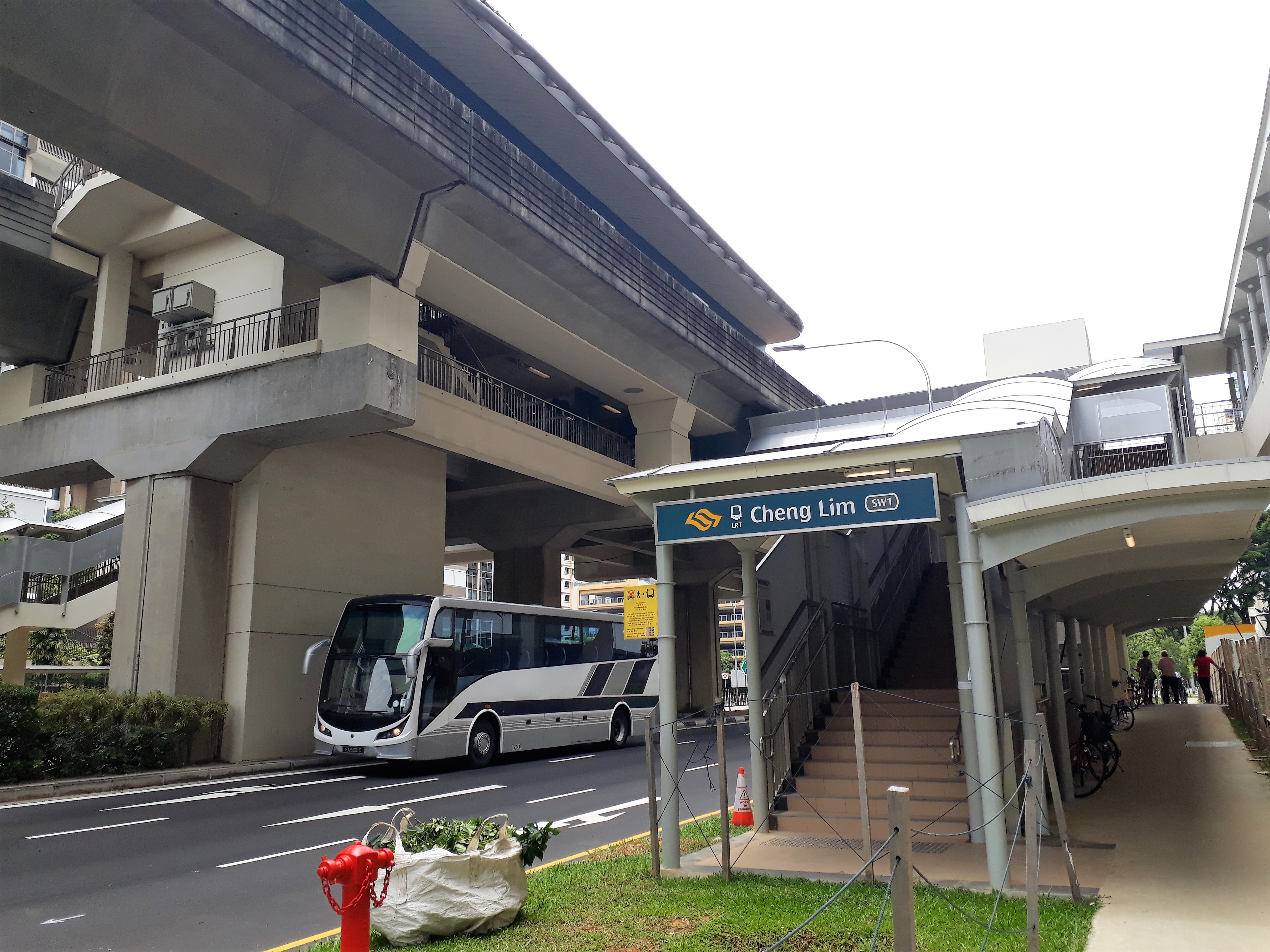 Cheng Lim LRT